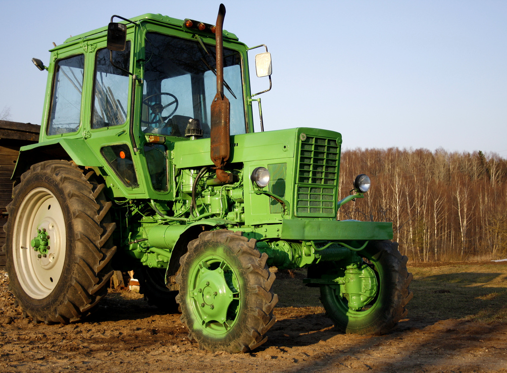 A Belarus MTZ-82 tractor